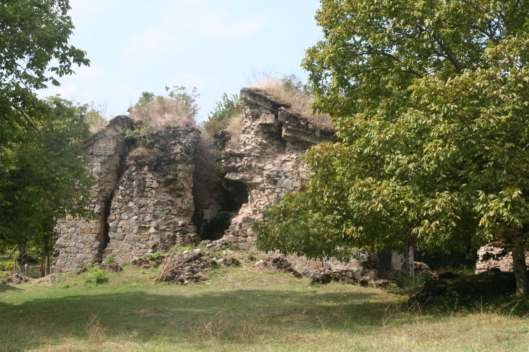 Seven church monastery